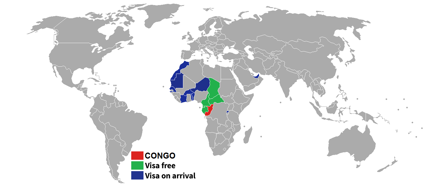 Visa policy of the Republic of the Congo Republic of the Congo Visa free Visa on arrival